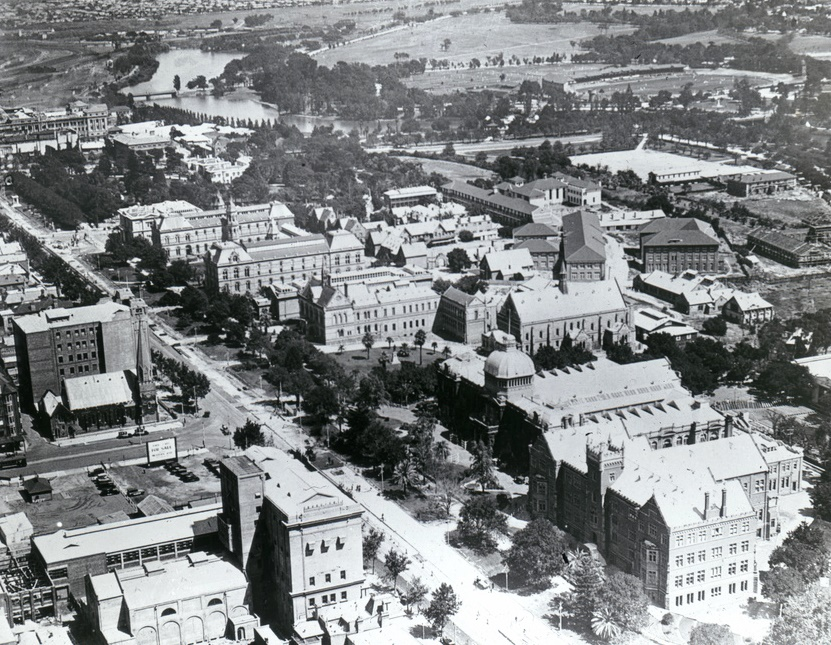 Aerial view of North Terrace in 1930, looking roughly west. Prominent buildings, from bottom right, are School of Mines, Jubilee Exhibition Building, University, Museum and Public Library. Last is Railway Station with Torrens Lake behind.